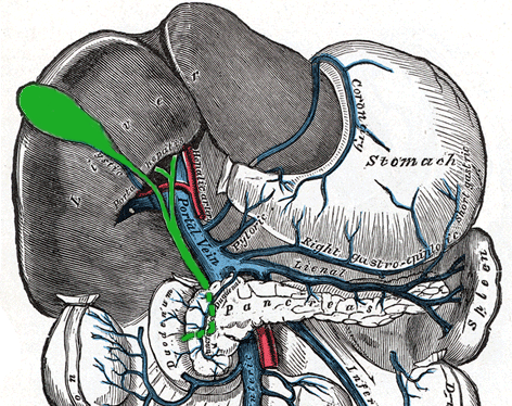 Bilebladder (modified part of a plate from Gray's Anatomy, originally published in 1918)